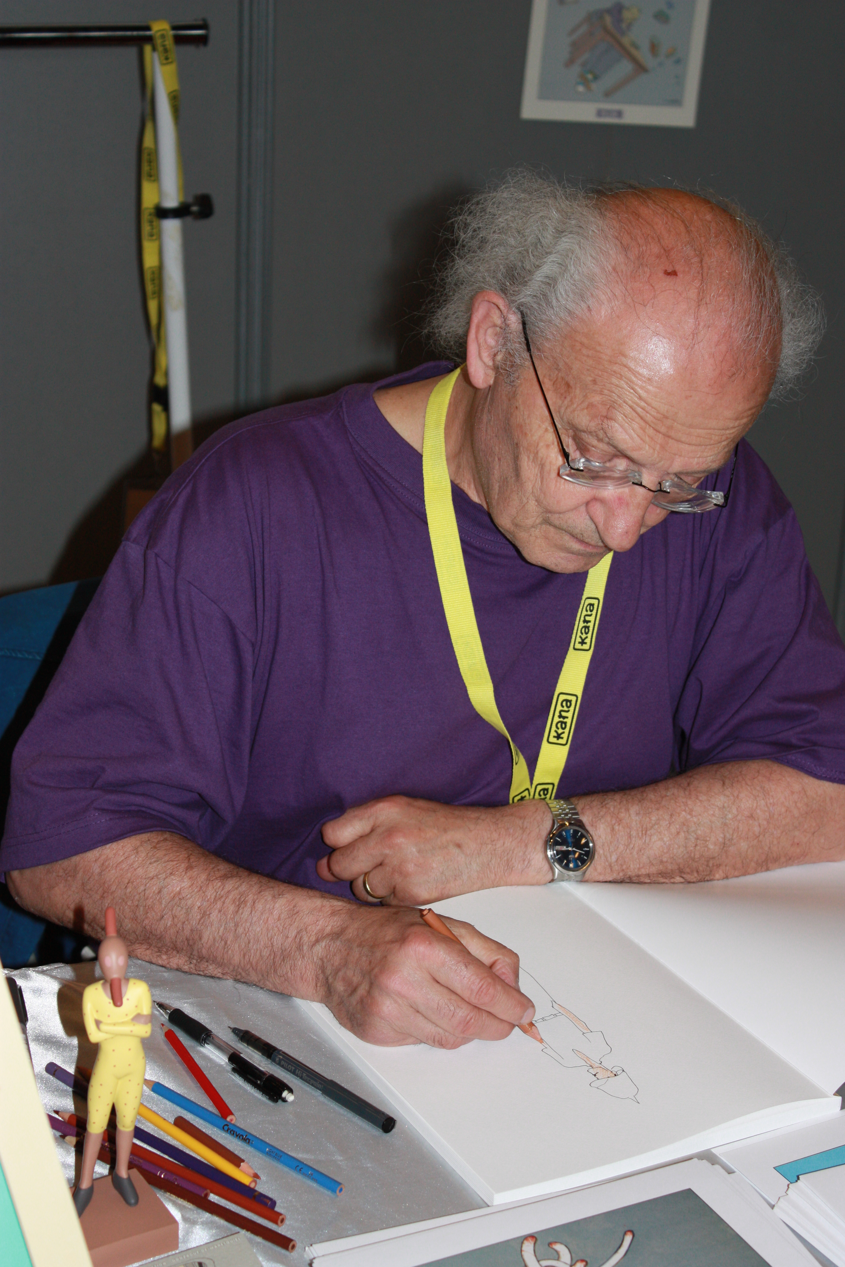 Autograph session with Jean Giraud (Mœbius) at Japan Expo 2008 (Paris, France)